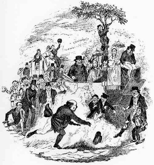 Illustration for The Pickwick Papers by R. Seumour